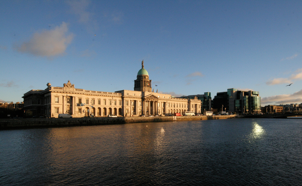 On a sunny January morning.